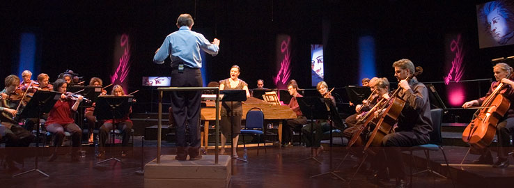 The recording the Mozart Sessions.